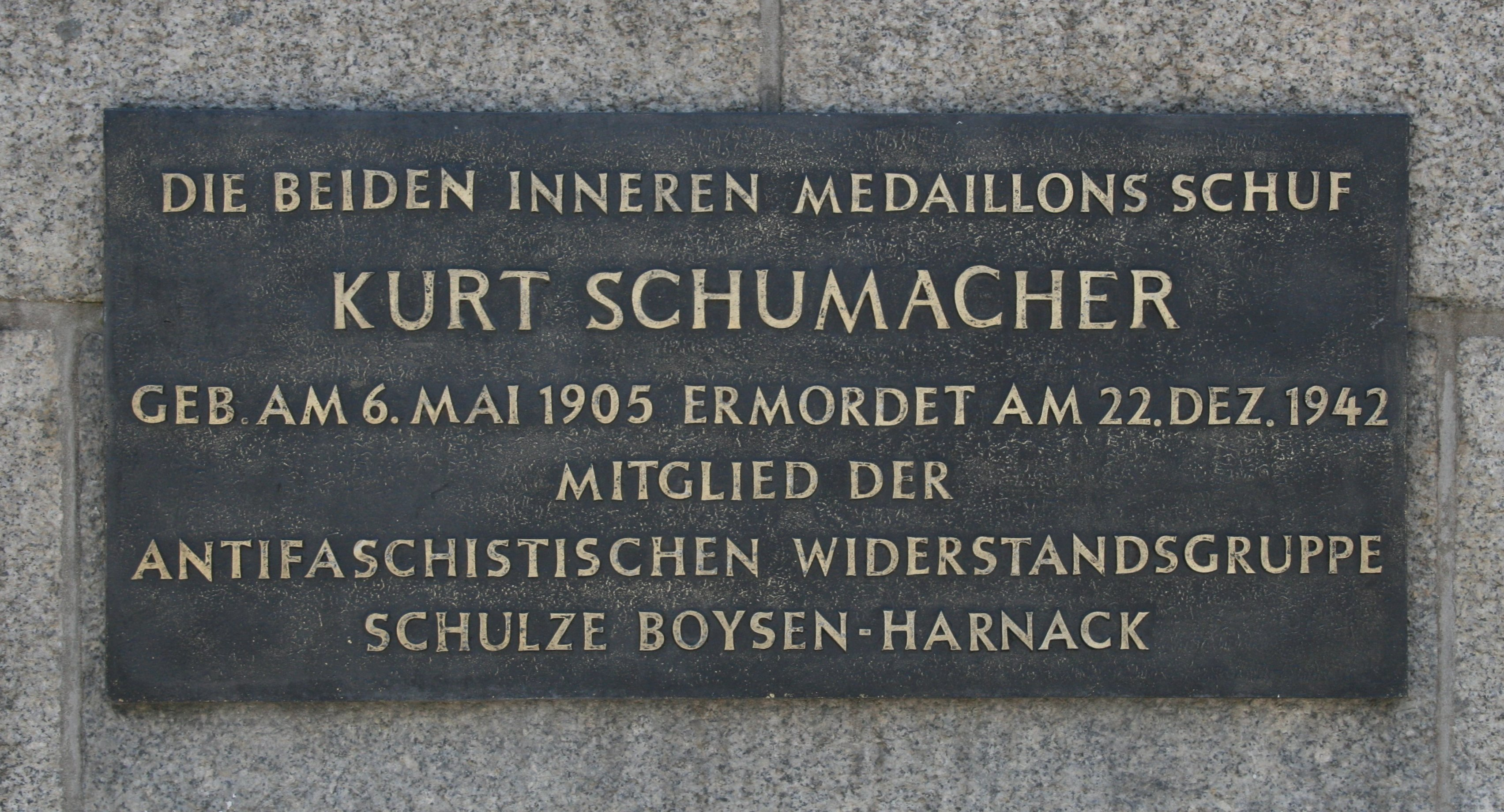 Commemorative plaque for german sculptor Kurt Schumacher (1905-1942). Schleusenbrücke (bridge), Berlin, Germany